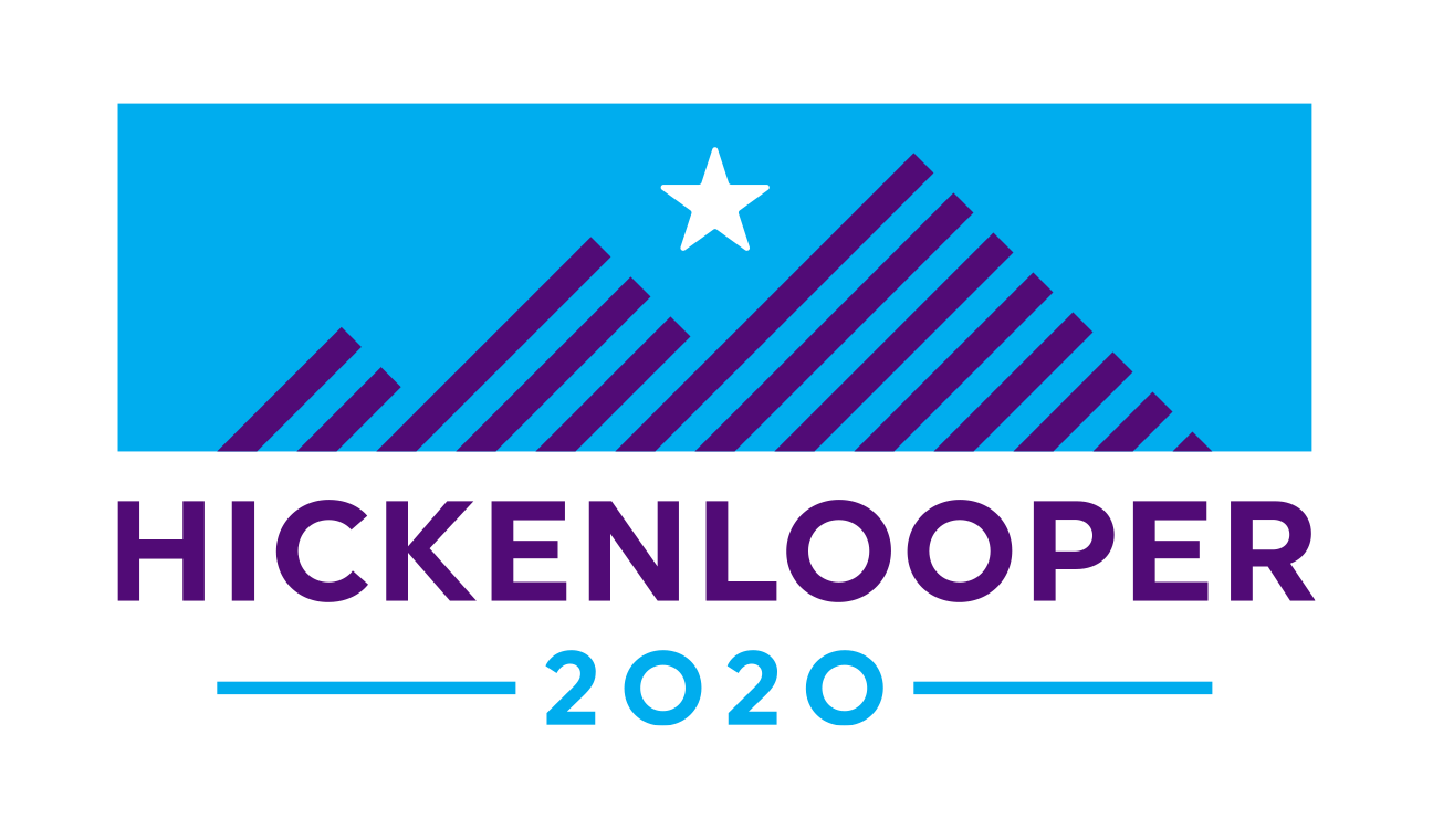 Logo of John Hickenlooper's 2020 presidential campaign.